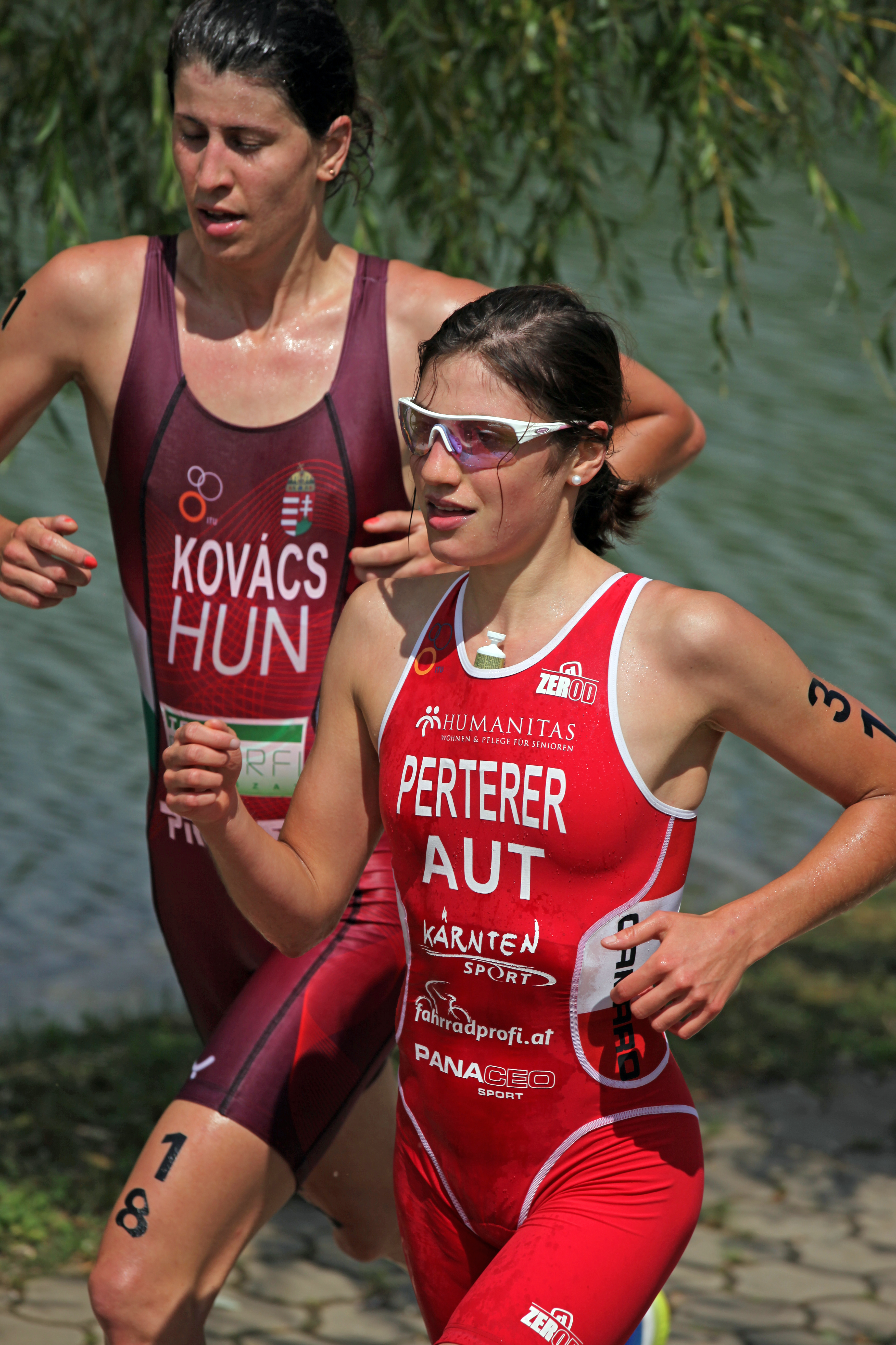 Lisa Perterer at the World Cup elite triathlon in Tiszaújváros (in the background: Kovács Zsófia).